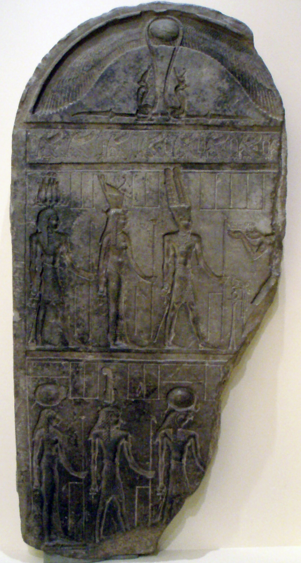 On this unfinished Ptolemaic-era stela, the king at top (figure broken off) presents offerings to two groups of three gods. The top row illustrates the gods of Thebes: Amun, Mut and Khonsu, while the bottom row shows the gods of Heliopolis: Re, Shu and Tefnut. From the Royal Ontario Museum.